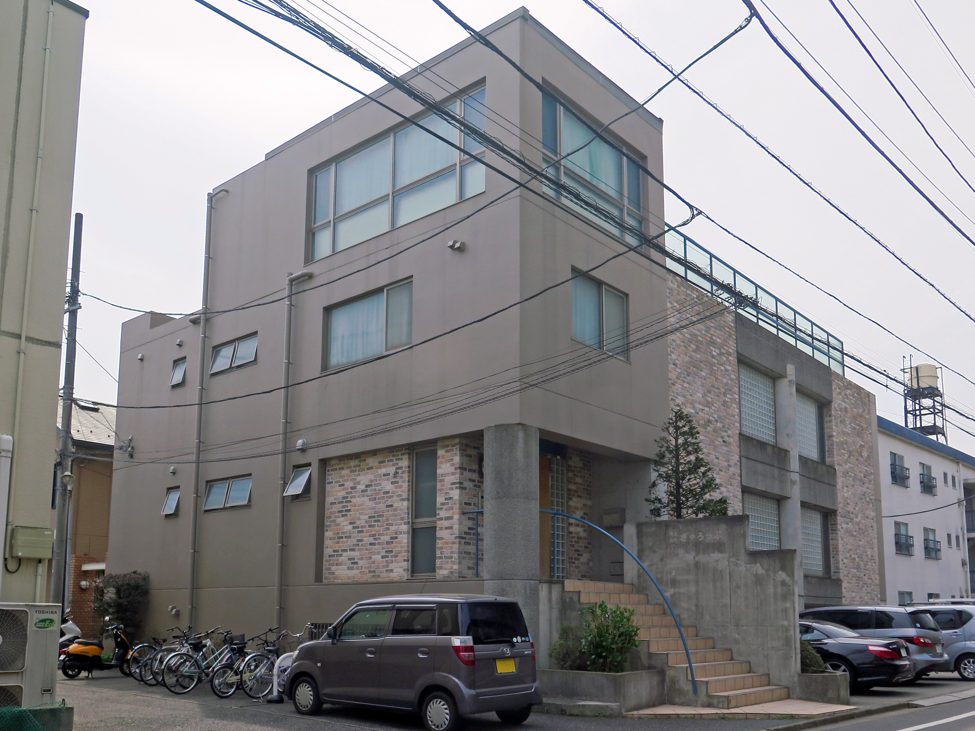 Gallop Head Office in Nerima Ward, Tokyo, Japan